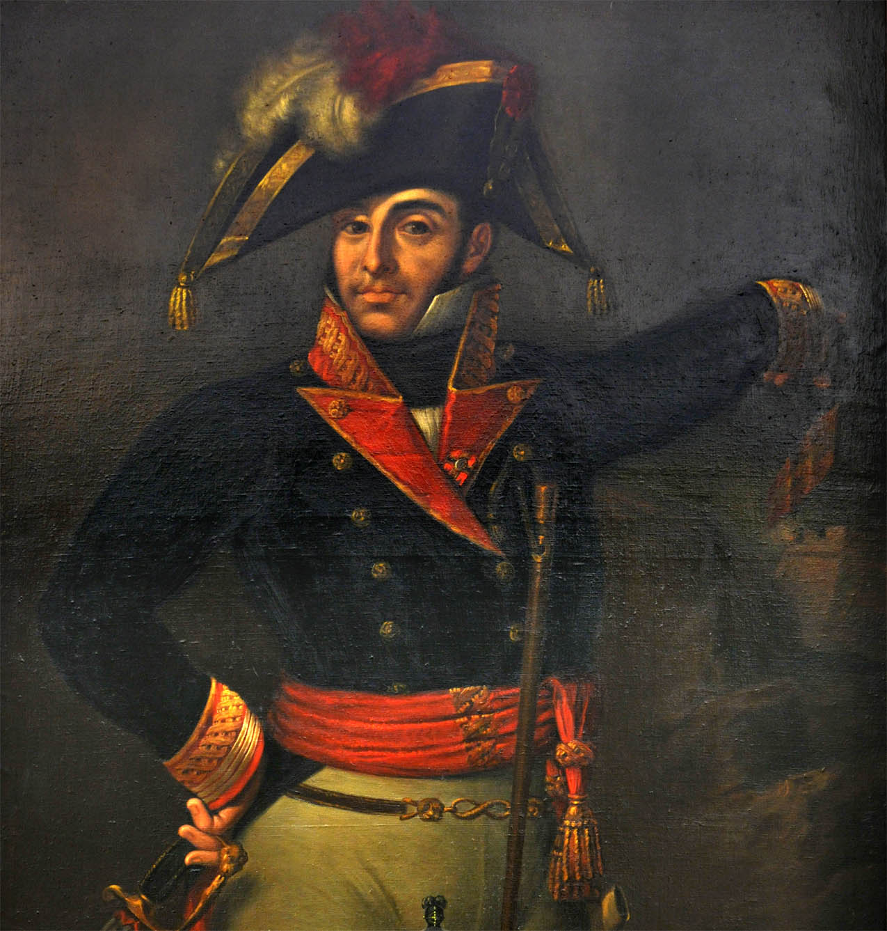 Portrait of Spanish Marshal Rafael Menacho y Tutllo (1766-1811), killed at the defense of Badajoz in the Peninsular War.